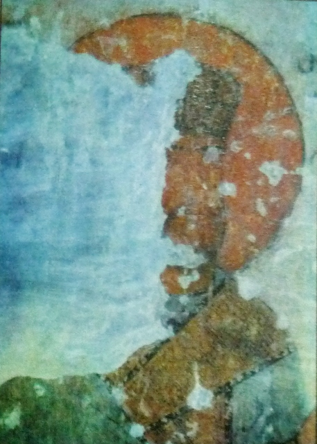 A fragment of the fresco from the Ateni Sioni Church, depicting BagratIV, King of Georgia